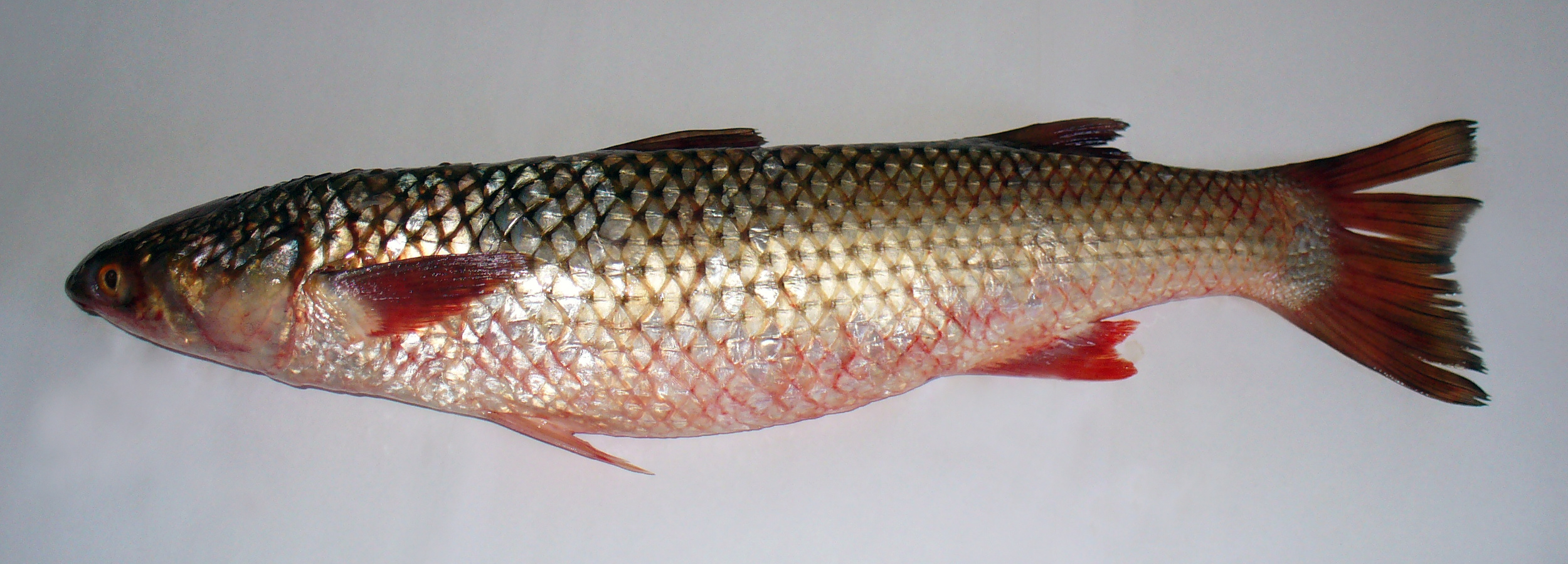 The haarder (Liza haematocheilus (Temminck & Schlegel, 1845)). Caught in the Sea of Azov at spring 2008